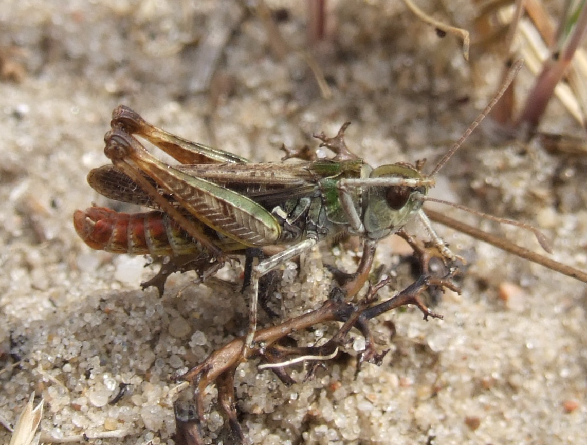 Mottled Grasshopper, male, Myrmeleotettix maculatus. NSG Boberg, Hamburg, Germany